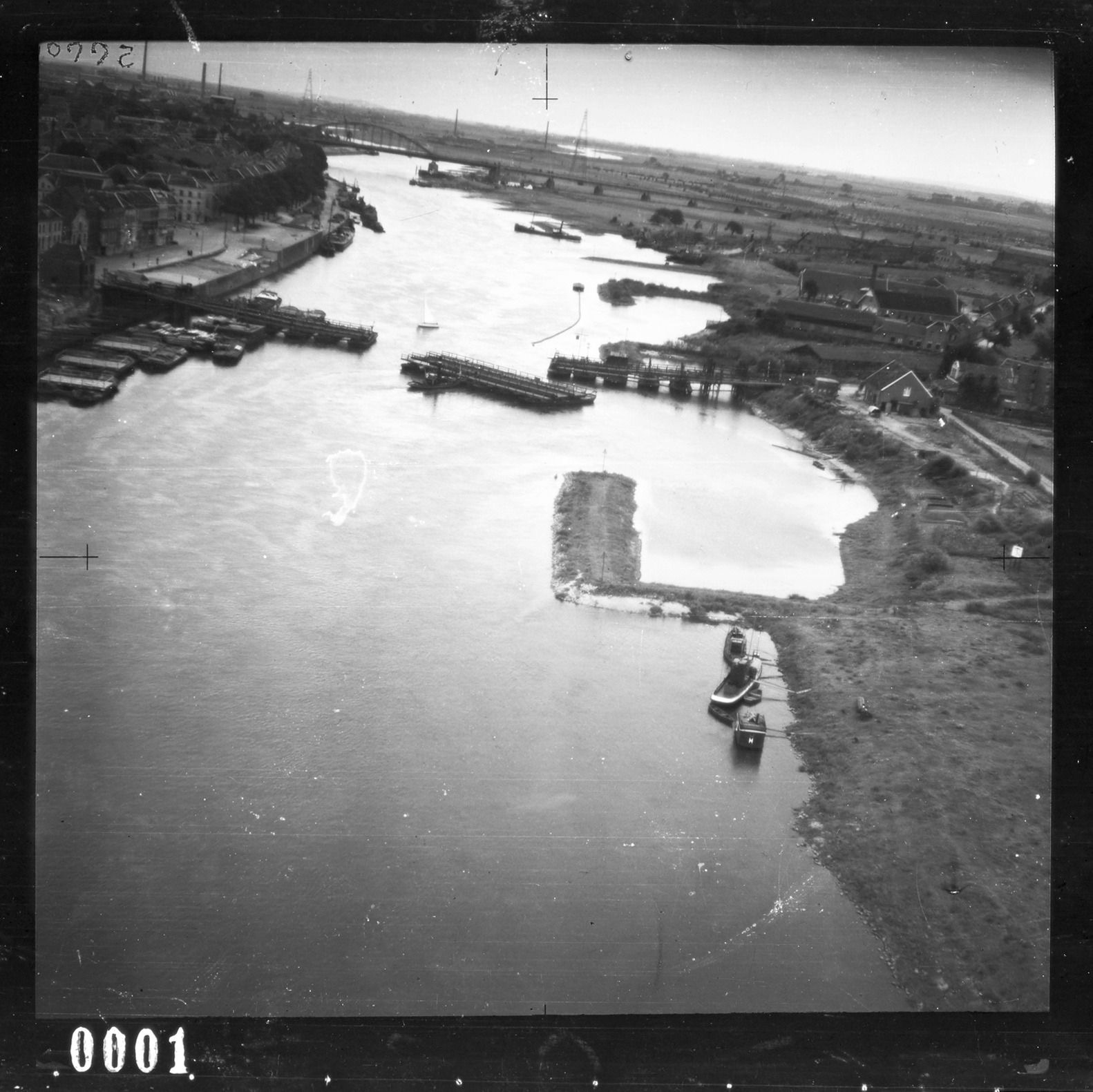 Date: 06 September 1944 Date known Location: Praets; Gelderland; The Netherlands Coordinates (lat, lon): 51.979978, 5.895393 Description: Oblique aerial Photograph taken facing East UNI: NCAP-000-000-290-792 Sortie: 106G/2676 Frame: PFFO_0001 Corporate bodies 541 Squadron (RAF) Image type: Oblique